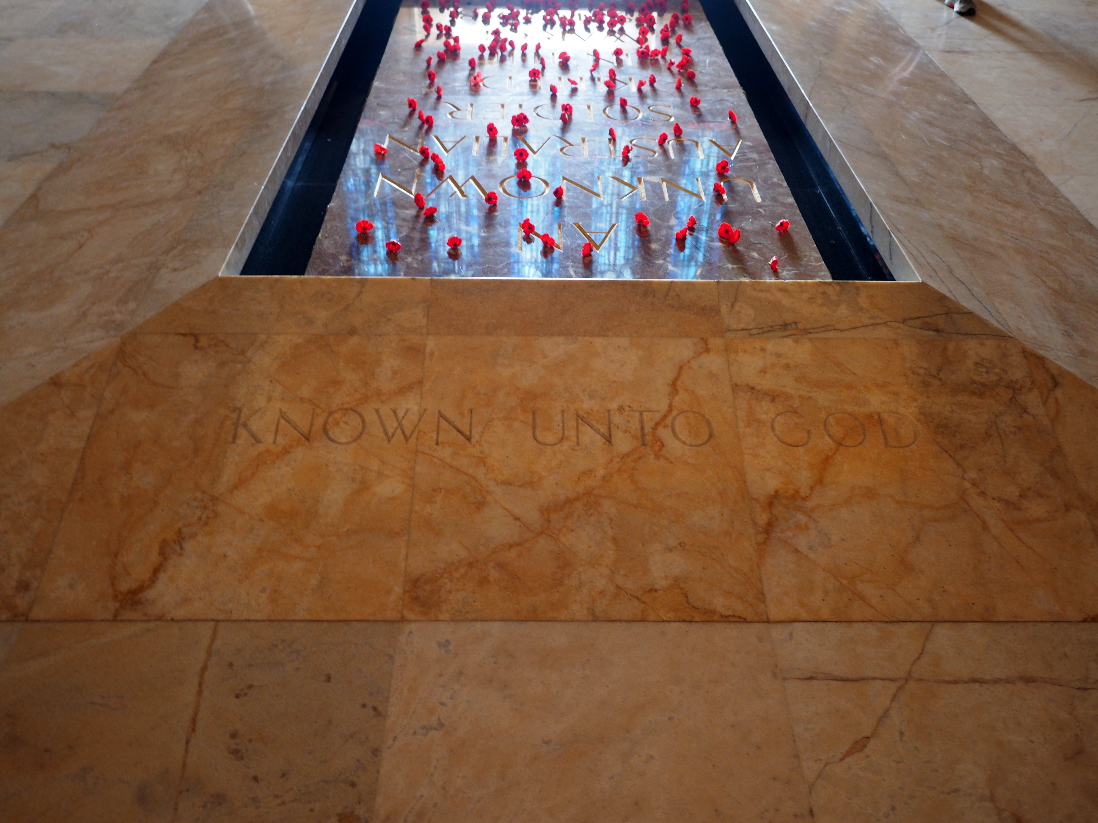 The Tomb of the Unknown Soldier at the Australian War Memorial viewed from the northern (Mount Ainslie) side, showing the inscription "Known Unto God"